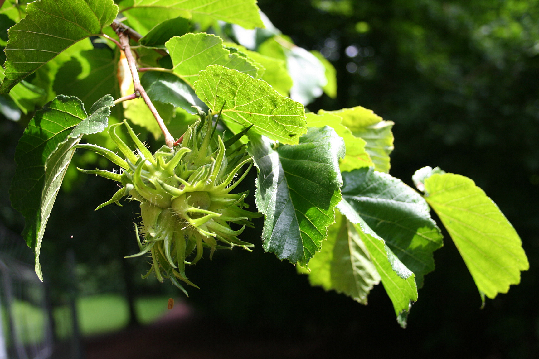 Turkish Hazel.